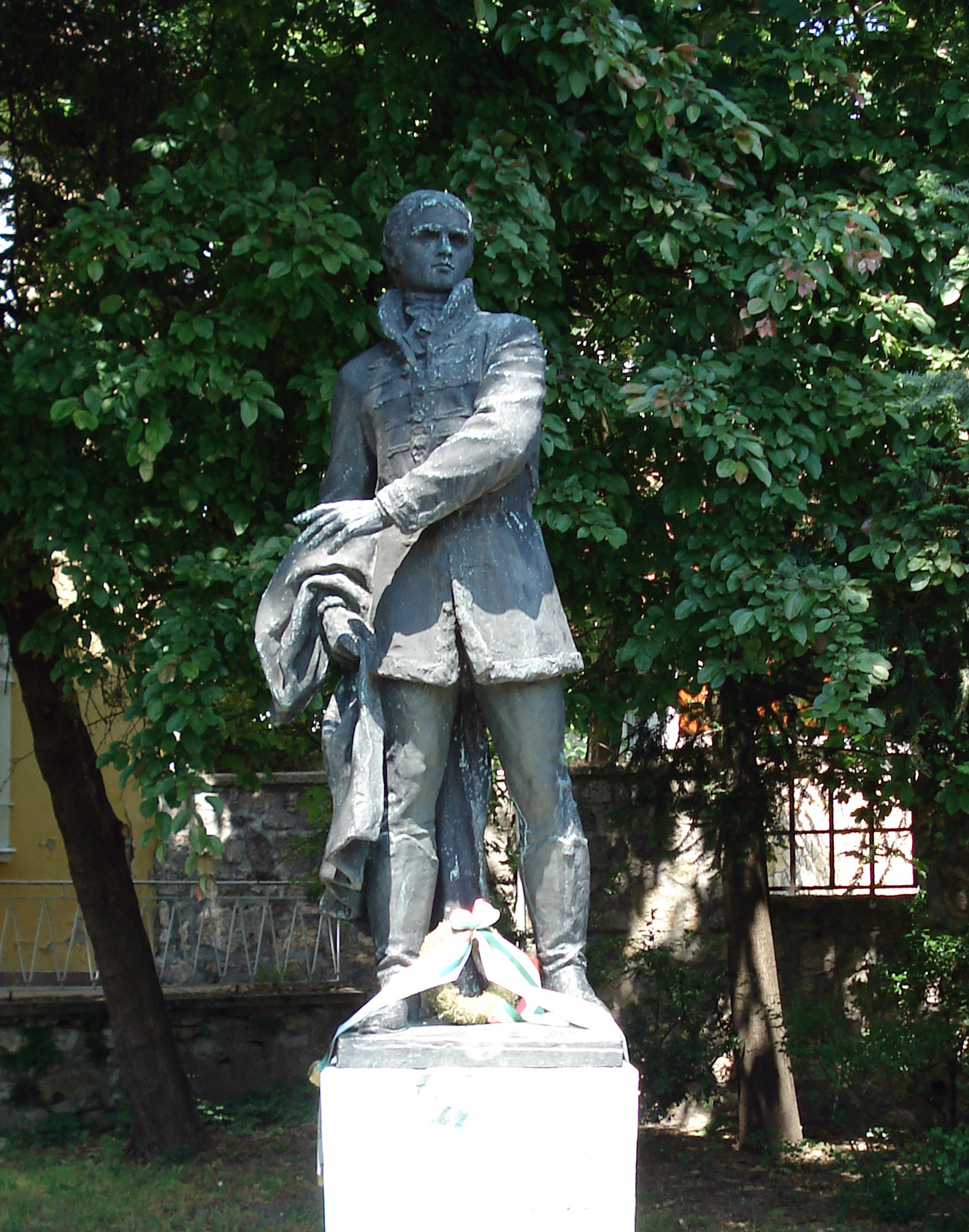 Statue of János Batsányi (1763–1845) Hungarian poet, Tapolca, Hungary